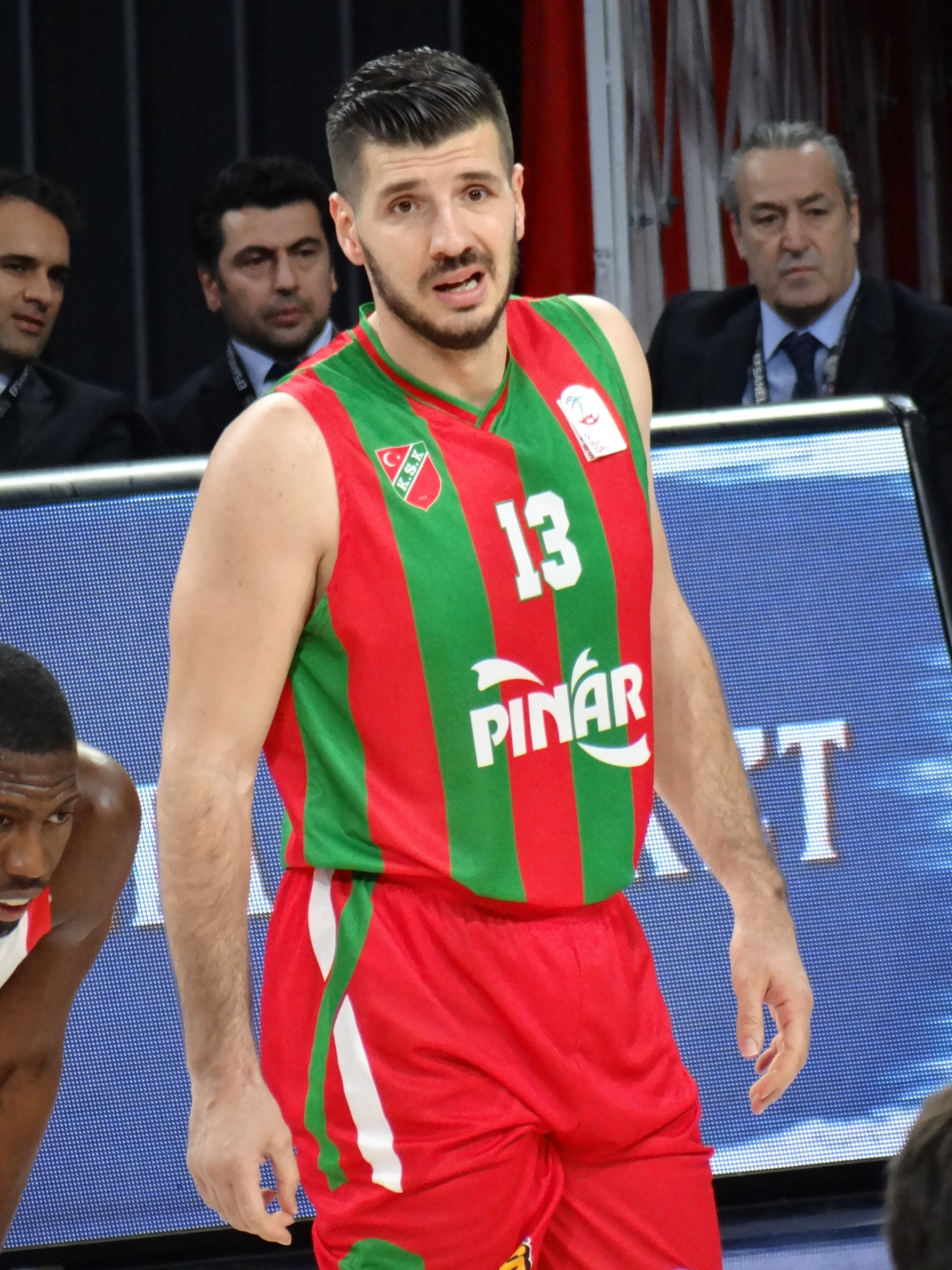 Marko Banić 13 Pınar Karşıyaka TSL 20180128